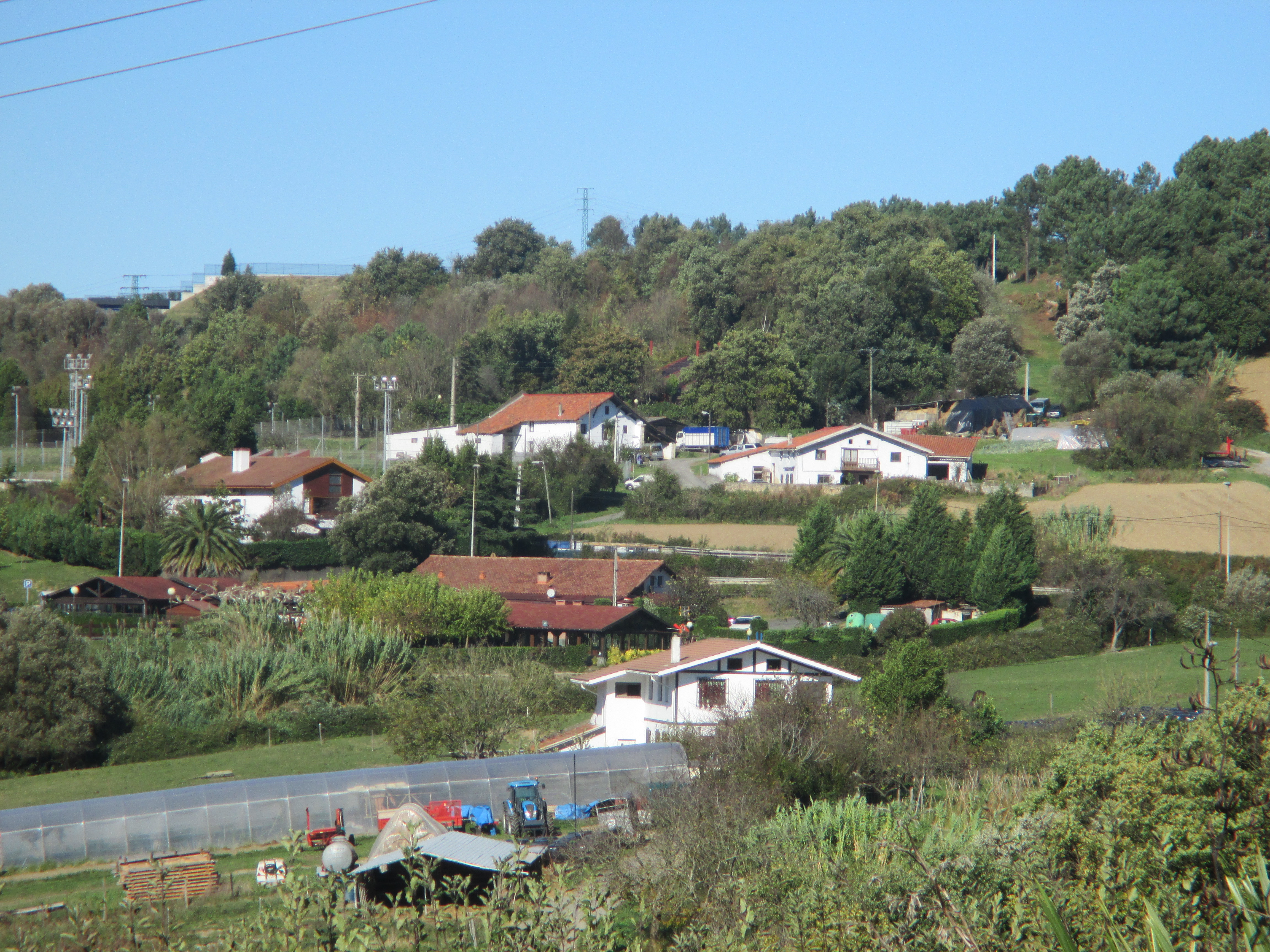 Rural neighbourhood of Sarriena, Leioa, November 8, 2015.